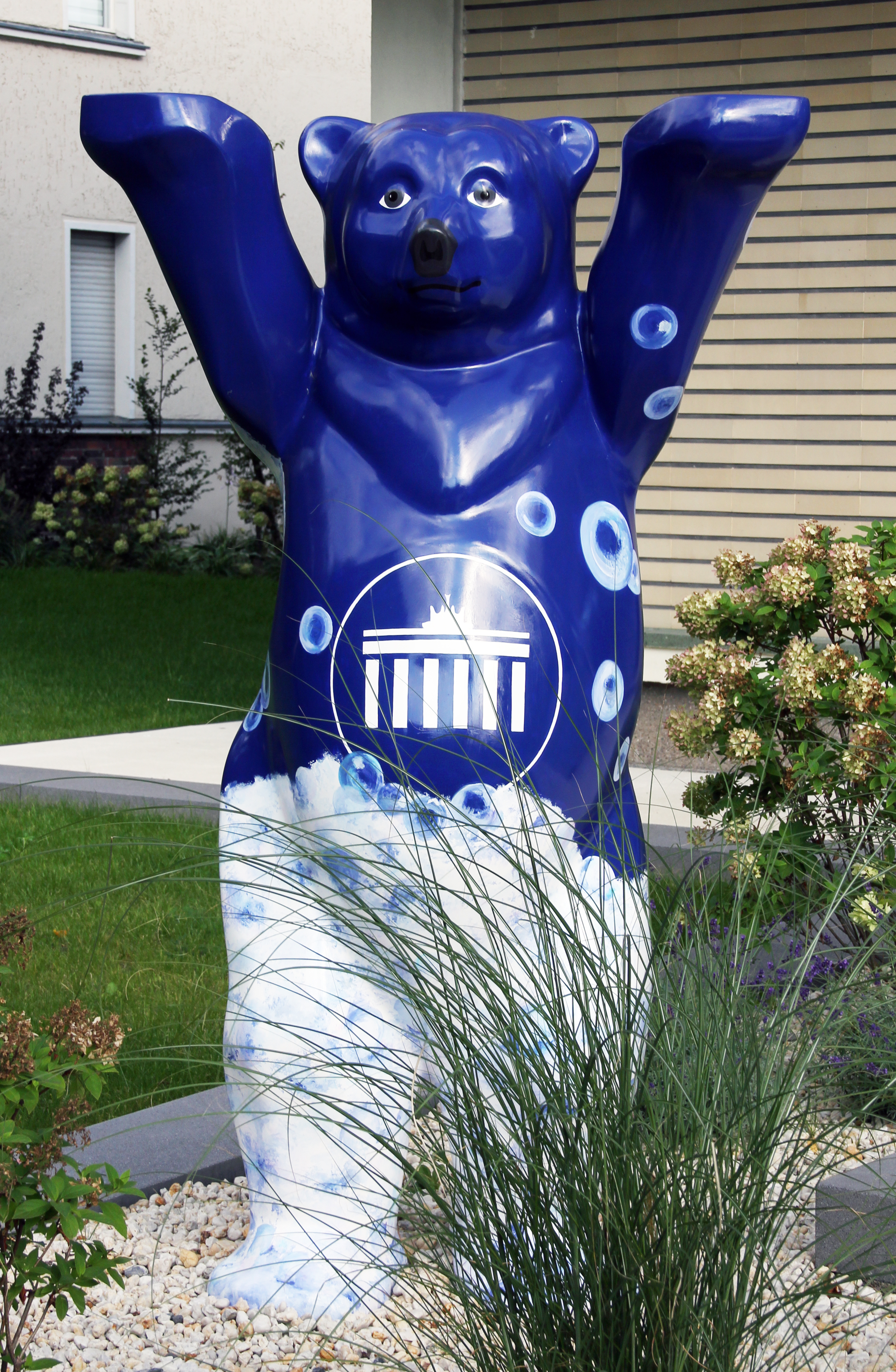 Sculpture, Beiersdorf Bär, Franklinstraße 1, Berlin-Charlottenburg, Germany